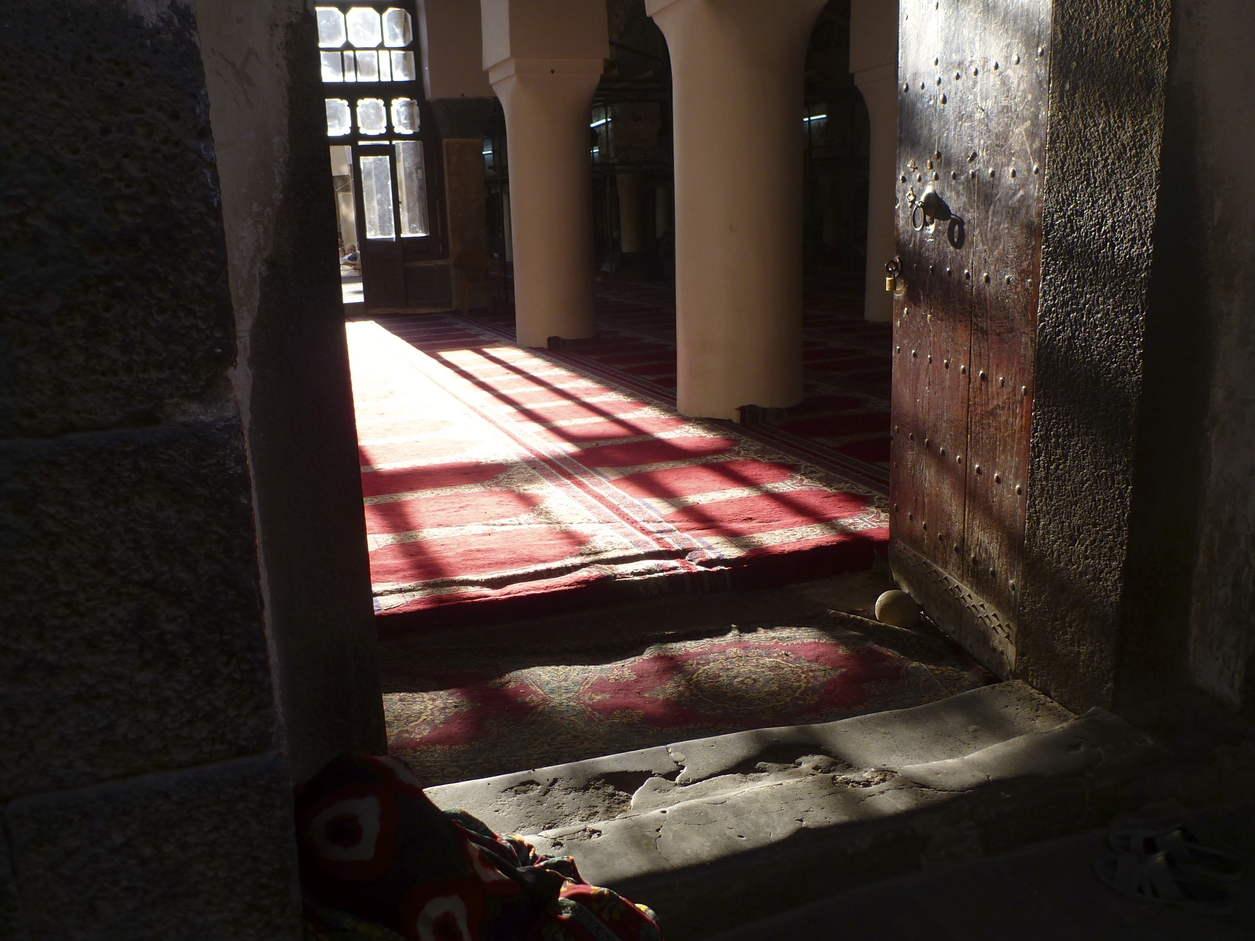 Interiro View of Great Mosque of Sana'a